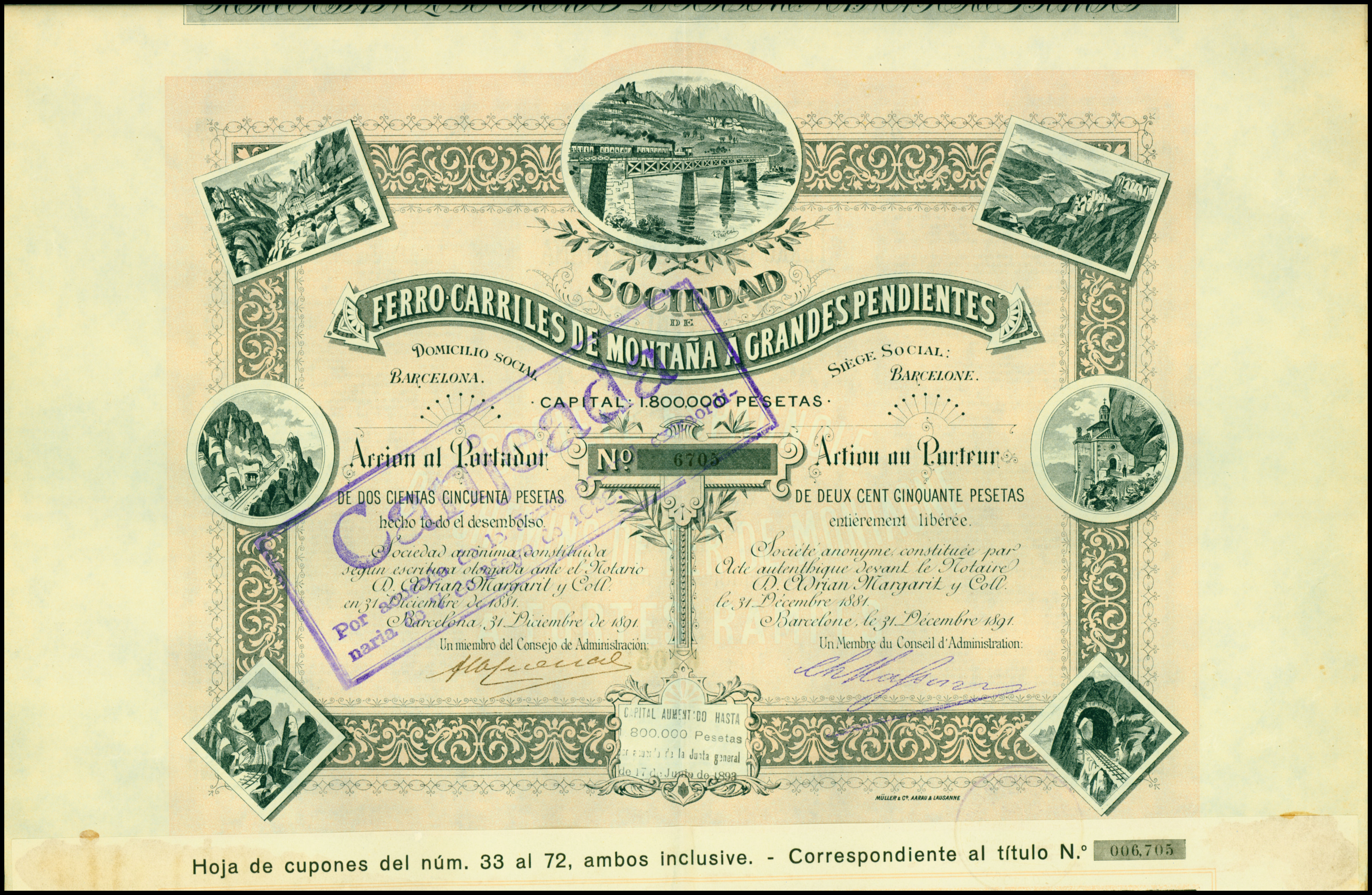 Share of the Sociedad de Ferrocarriles de Montaña a Grandes Pendientes, issued 31. December 1891